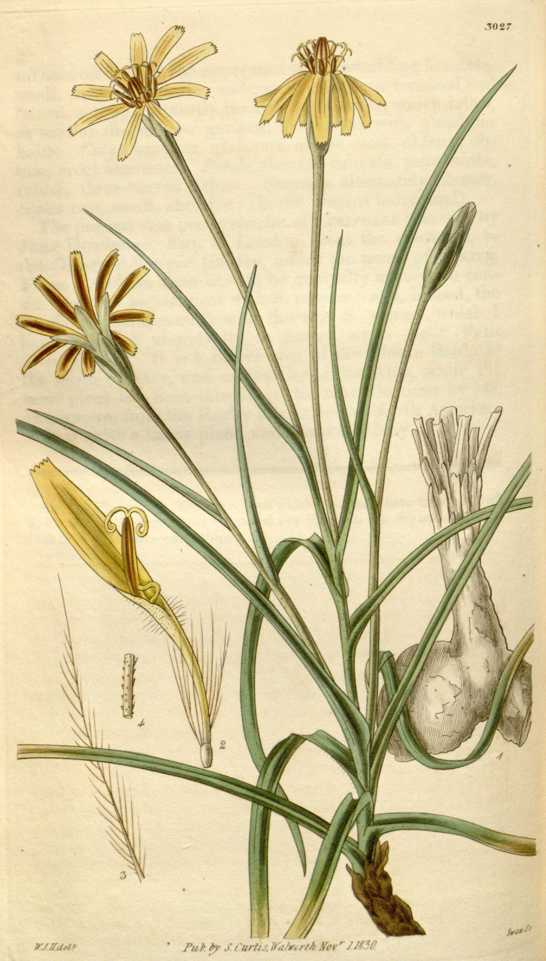 • /V'/r • Curb \WktortA I